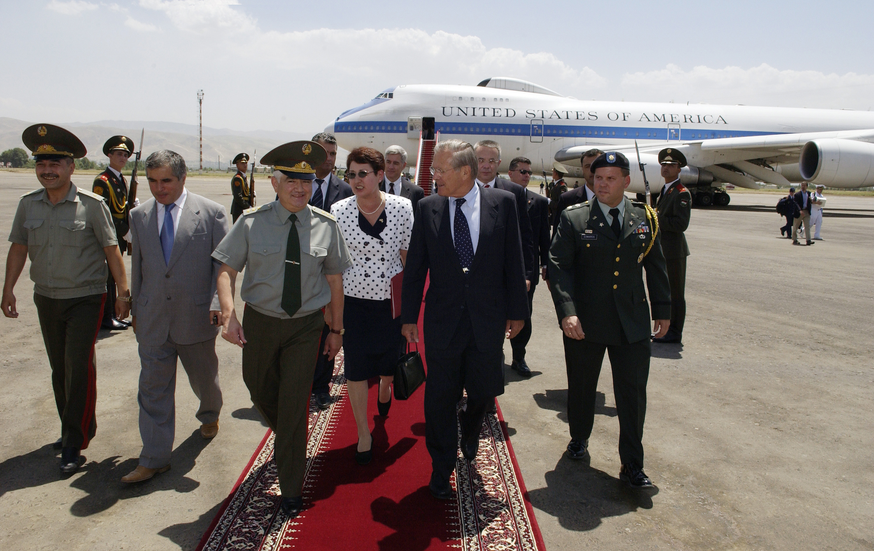 Secretary of Defense Donald H. Rumsfeld (2nd from right) talks with Tajikistan Minister of Defense Col. Gen. Sherali Khayrulloyev (4th from right) after arriving in Dushanbe, Tajikistan, on July 26, 2005. Rumsfeld is in Tajikistan to meet with Khayrulloyev and President Emomali Rahmonov to discuss bilateral military cooperation.